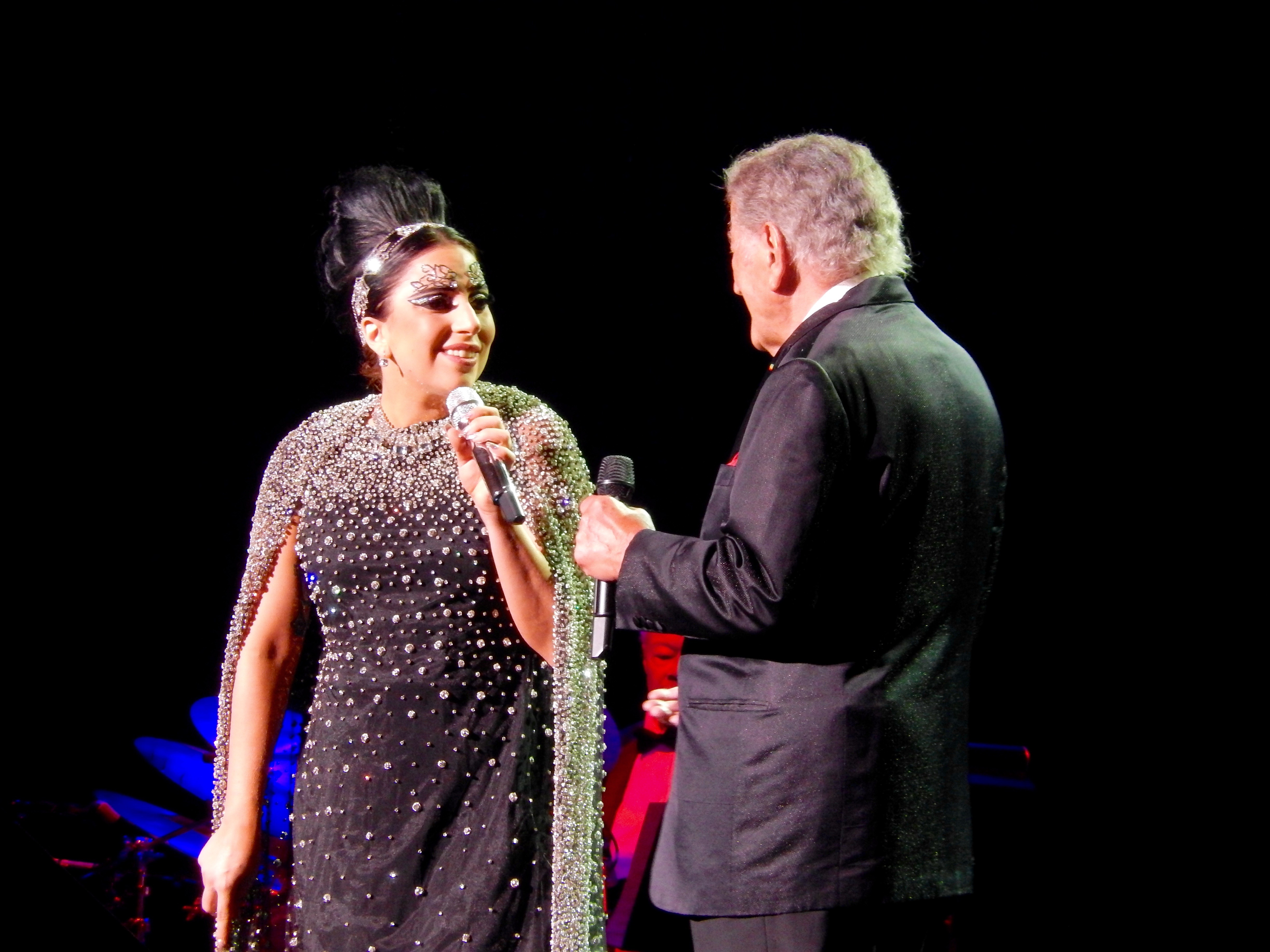 Cheek to Cheek Concert. The Axis. Planet Hollywood. Las Vegas. April 2015. Gaga and Bennett performing at Los Angeles for the Cheek to Cheek Tour